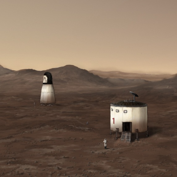 Artistic depiction of a Mars Direct base.